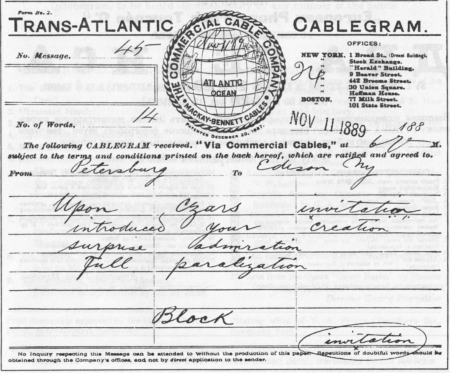 Julius Block`s telegram to Th. Edison about the demonstration of the phonograph to the Tsar Alexander III. 1889. November 11